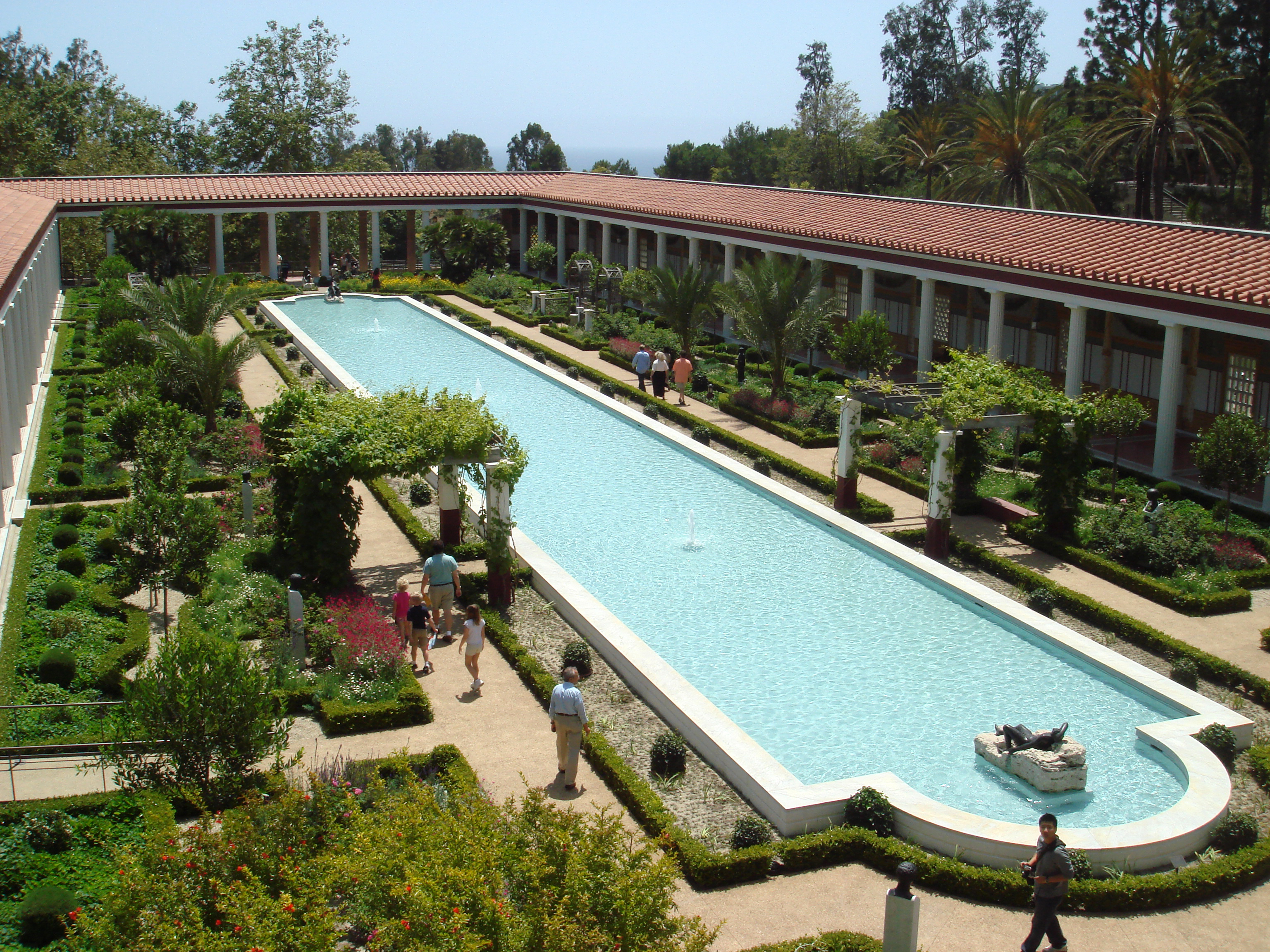 Gardens of the Getty Villa, Malibu